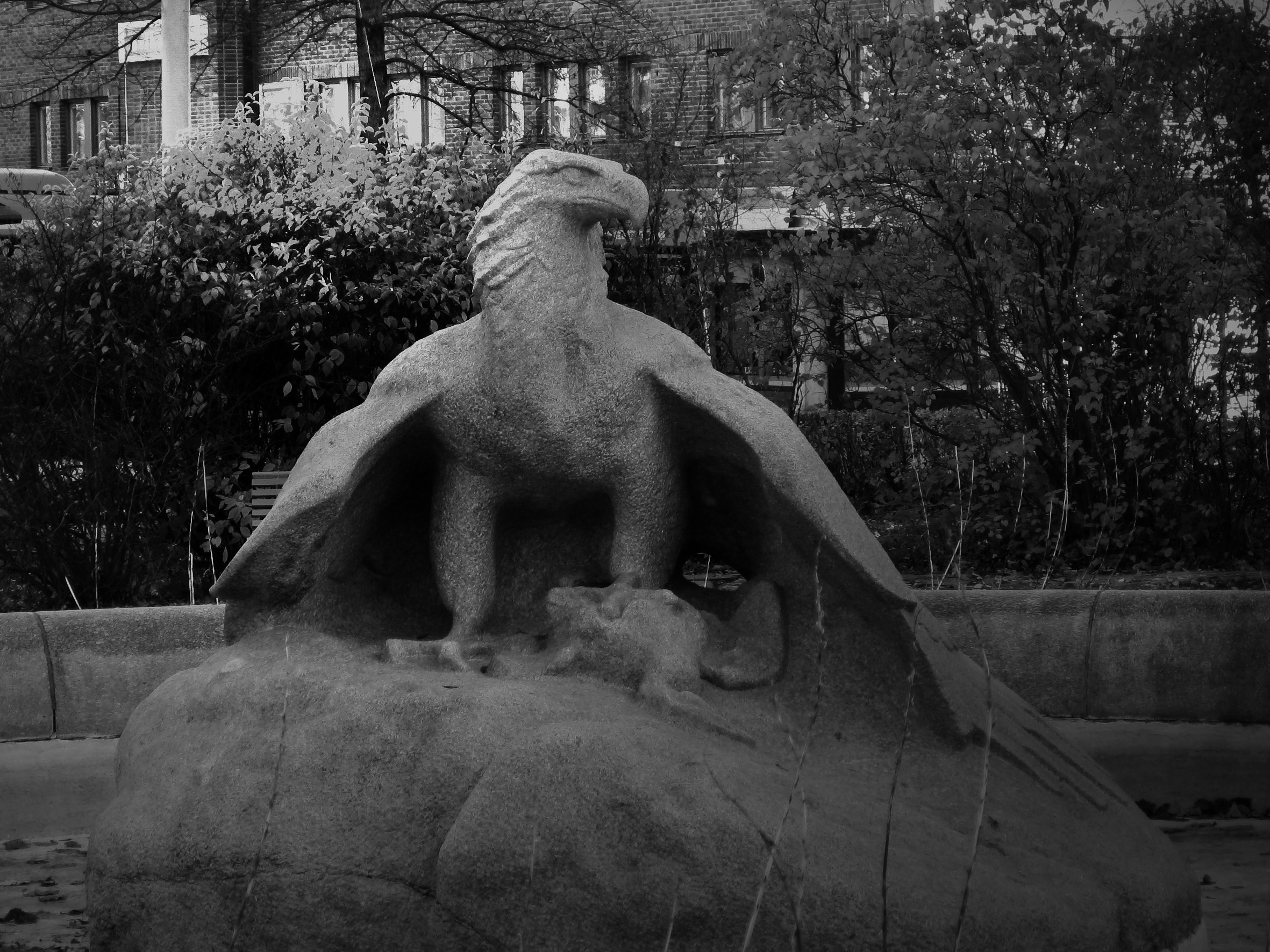 Eagle statue